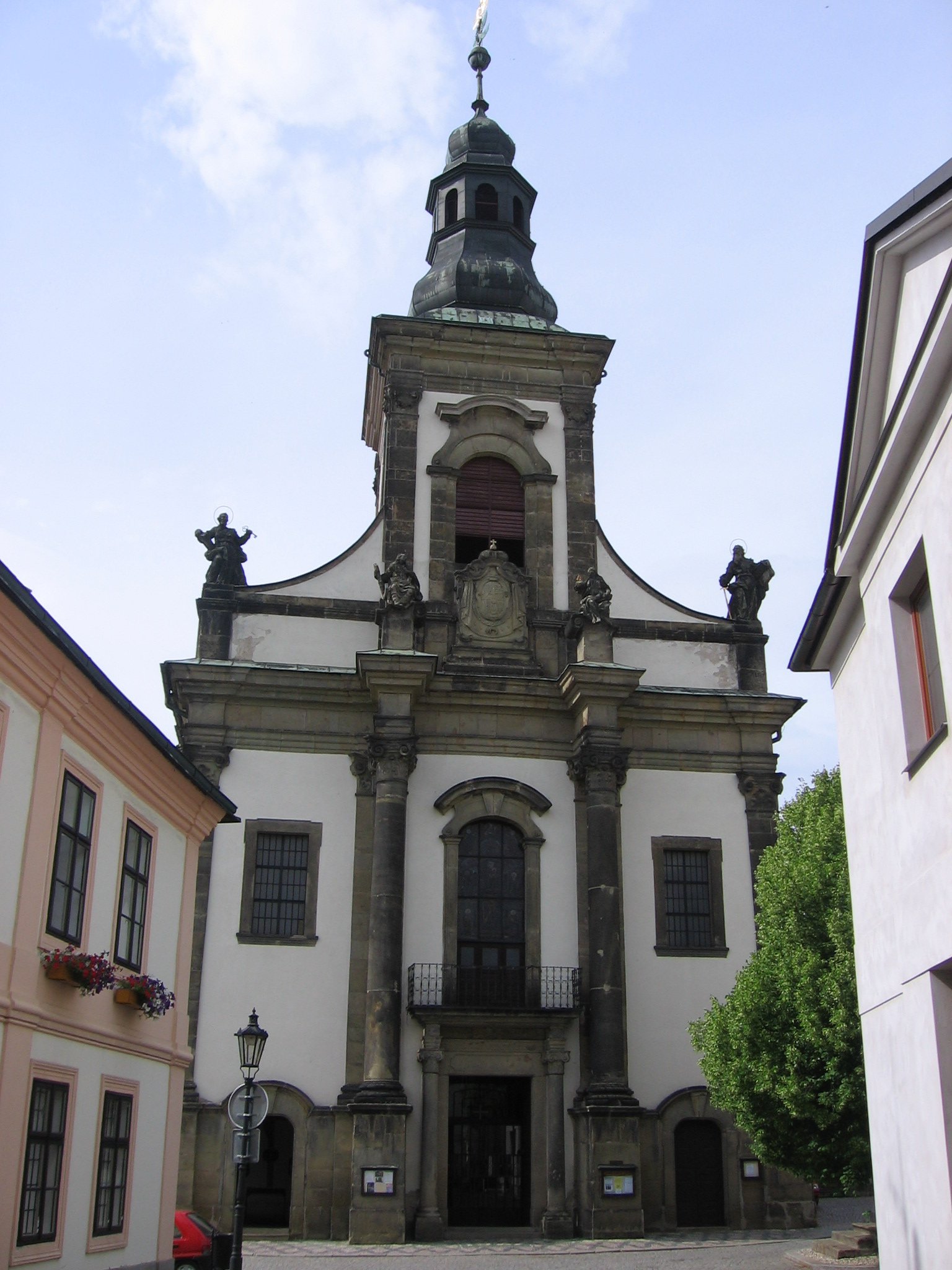 Church of the Assumption of the Virgin in Ústí nad Orlicí (Czech Republic)